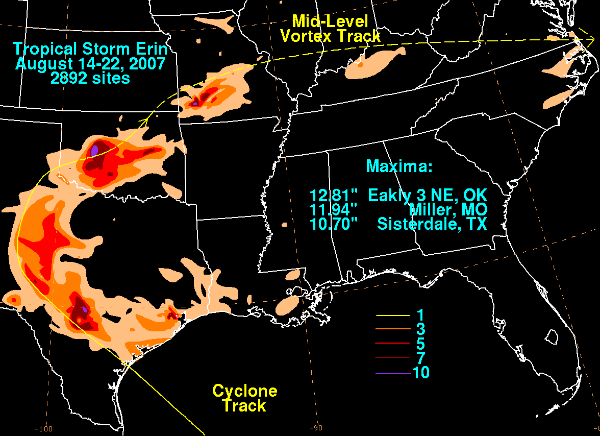 Rainfall produced by Tropical Storm Erin during August 2007.